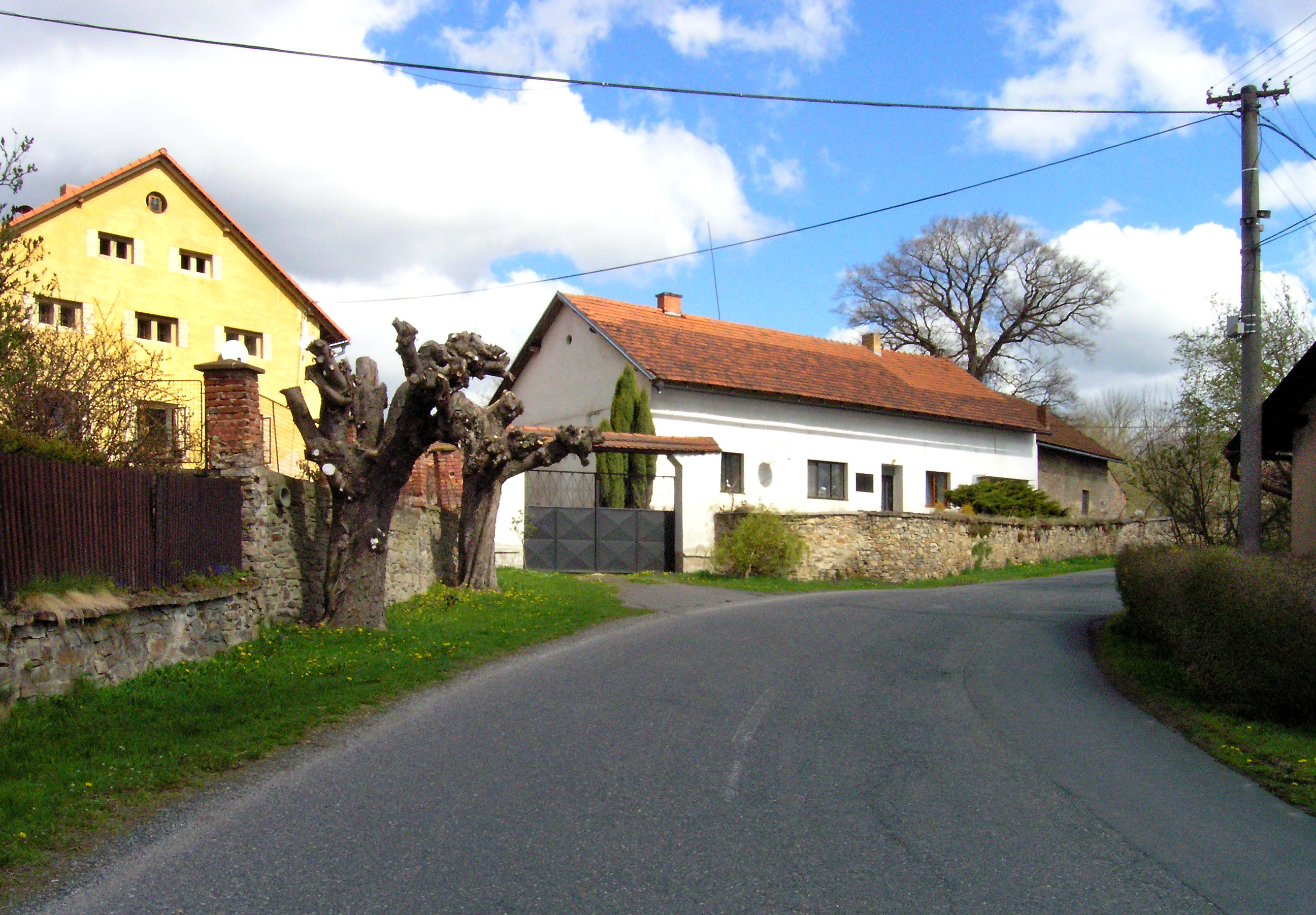 Main street in Přestavlky, part of Horní Kruty village, Czech Republic